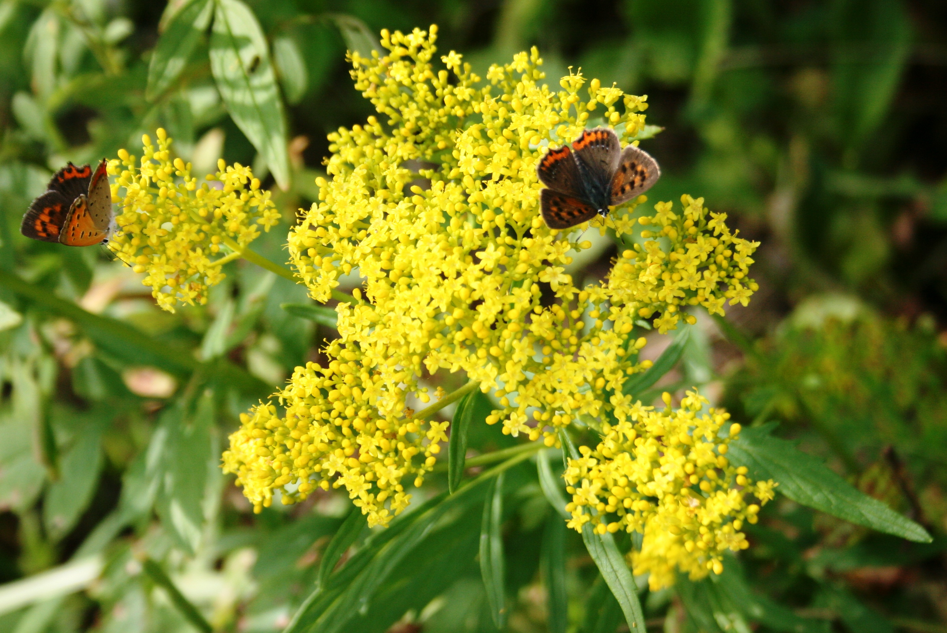 Patrinia scabiosifolia and Lycaena phlaeas in AQUA TOTTO GIFU